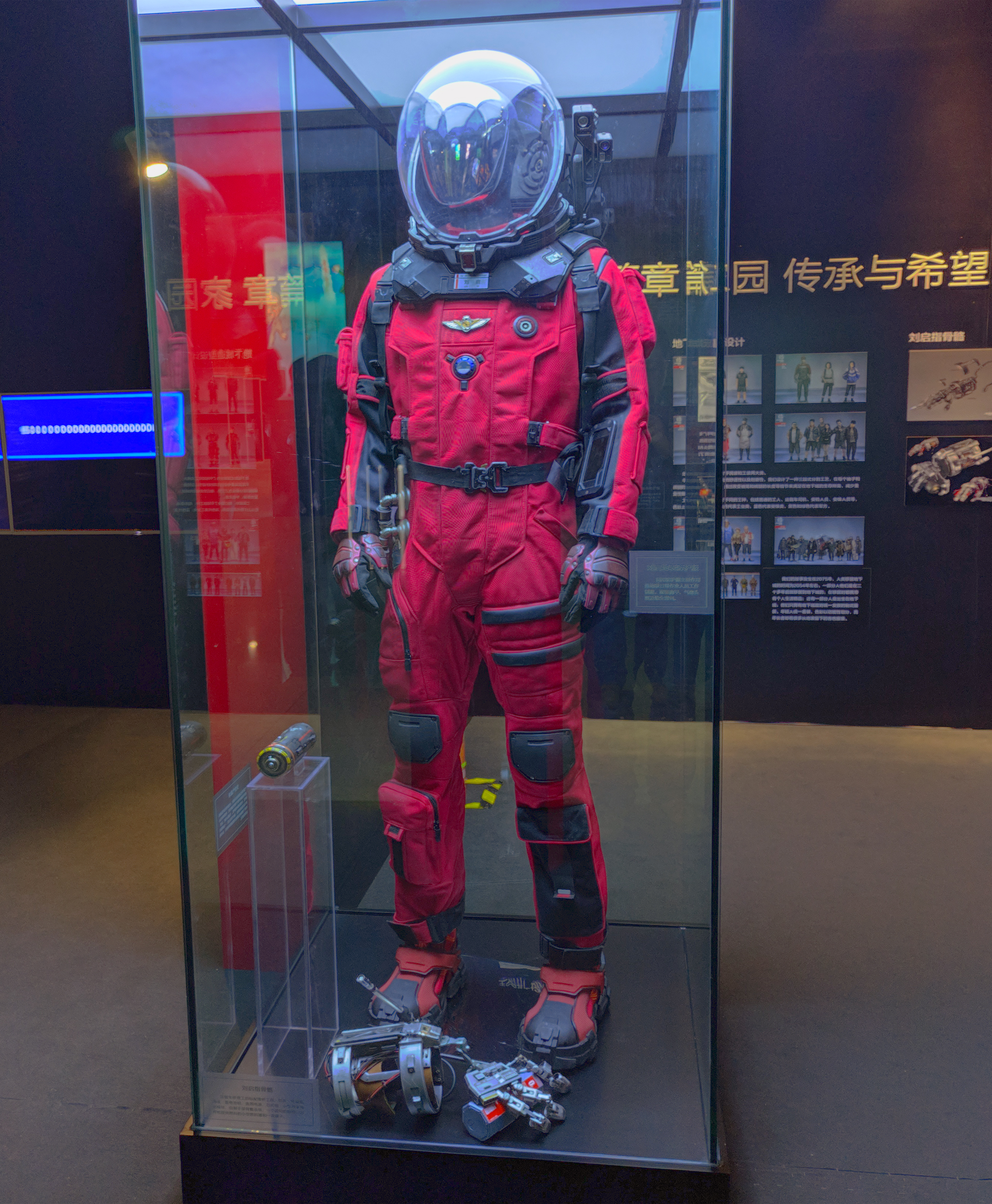 the suit from the in its exhibition in China Science and Technology Museum